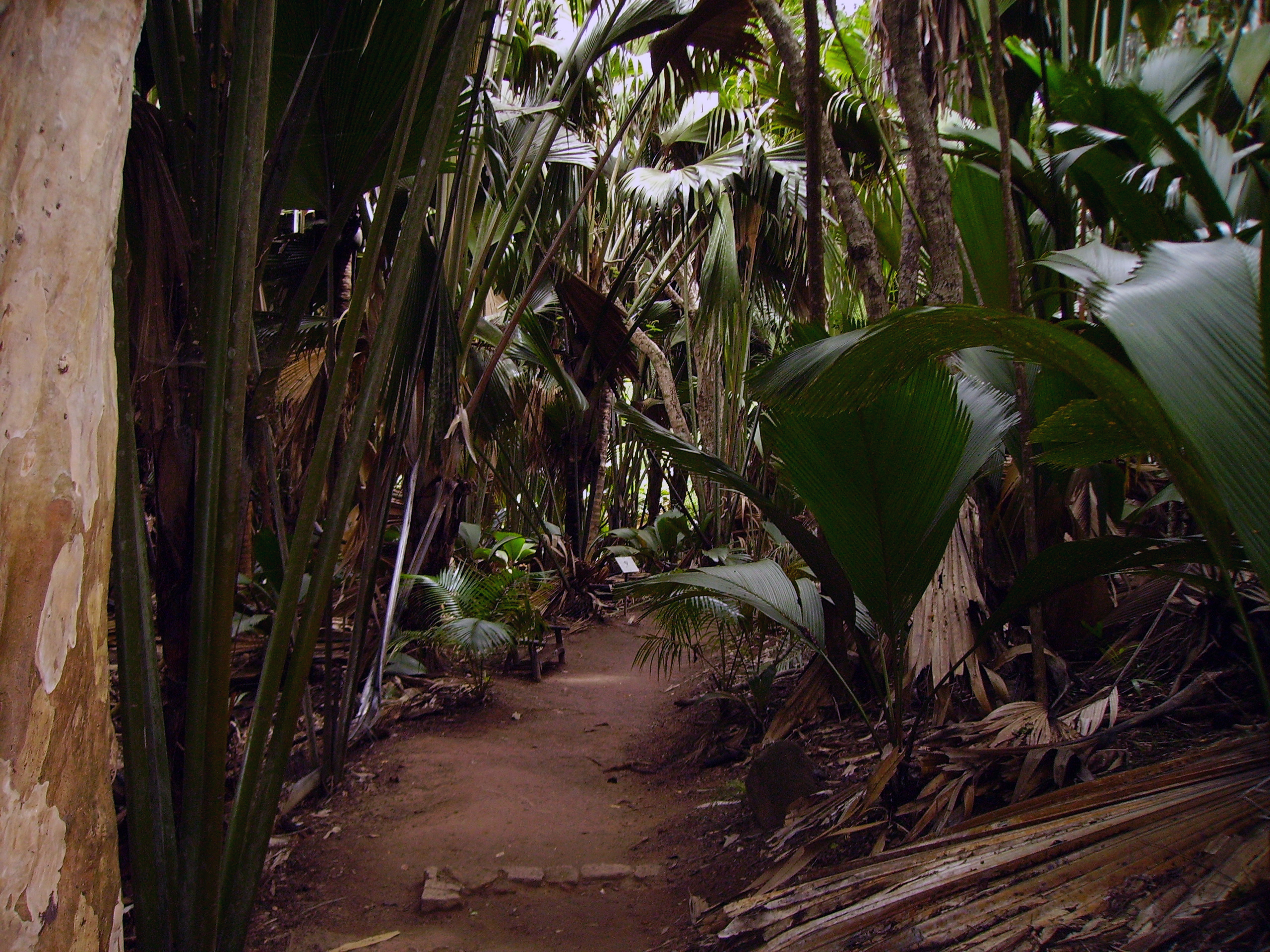 Valleé de Mai (UNESCO World Heritage), Praslin, Seychelles. Photo taken by User in July 2005.